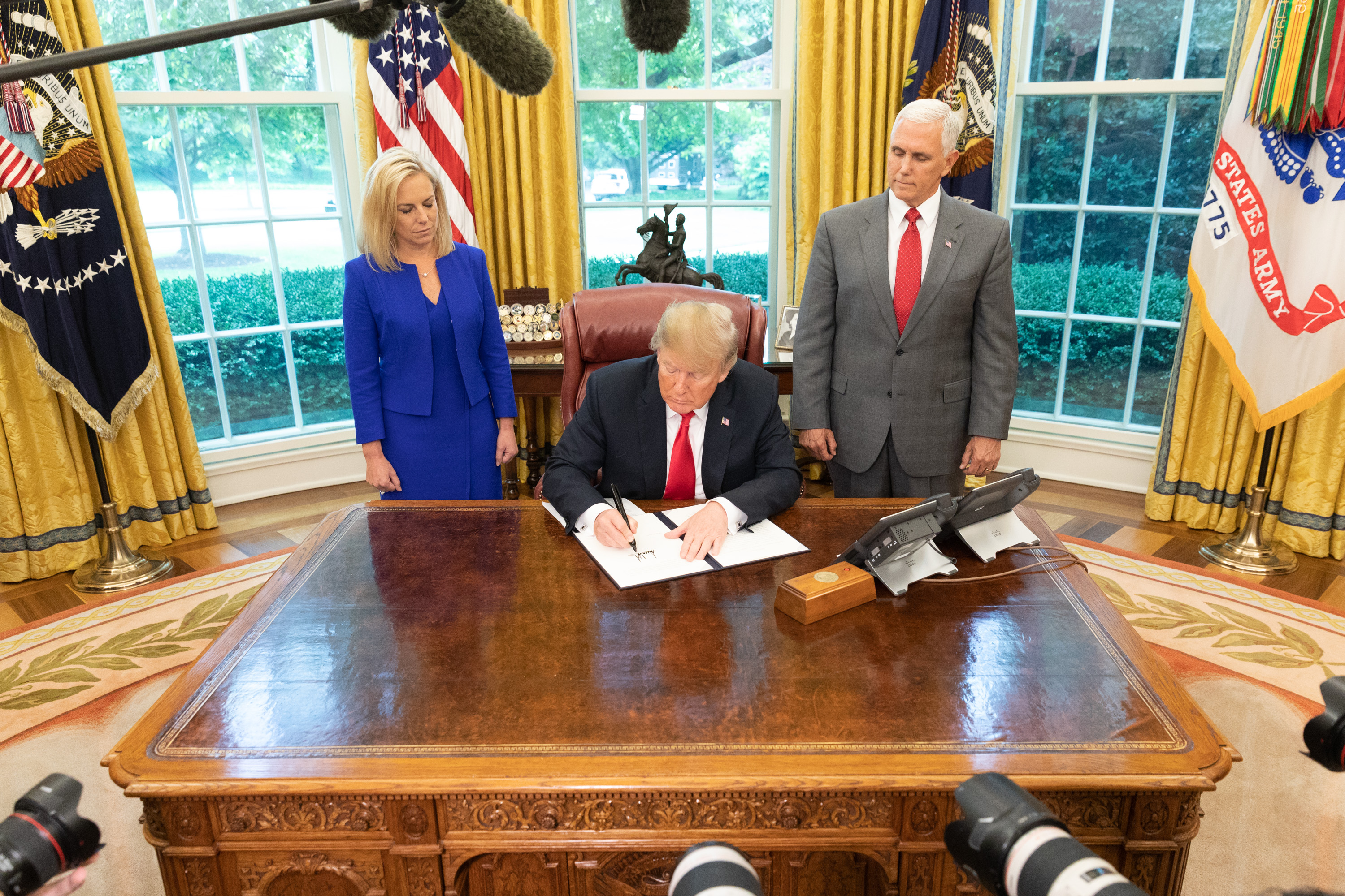 President Donald J. Trump in the Oval Office with Mike Pence and Kirstjen Nielsen. June 20, 2018.